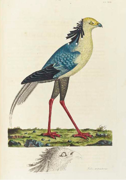 Ilustration of Vultur Secretarius or the Secretary Bird with 'its remrkable crest' by John Frederick Miller. Published in Cimelia physica: Figures of rare and curious quadrupeds, birds, &c. Together with several of the most elegant plants, engraved and coloured from the subjects themselves by John Frederick Miller, with descriptions by George Shaw. London: by T. Bensley for Benjamin and John White and John Sewell, 1796.